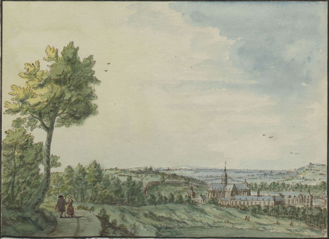 Drawing by Hendrik van Wel (c. 23 x 17 cm) from the album Forty-six landscape drawings of Netherlandish towns and villages Royal Library of Belgium Native nameFrench: Bibliothèque Royale